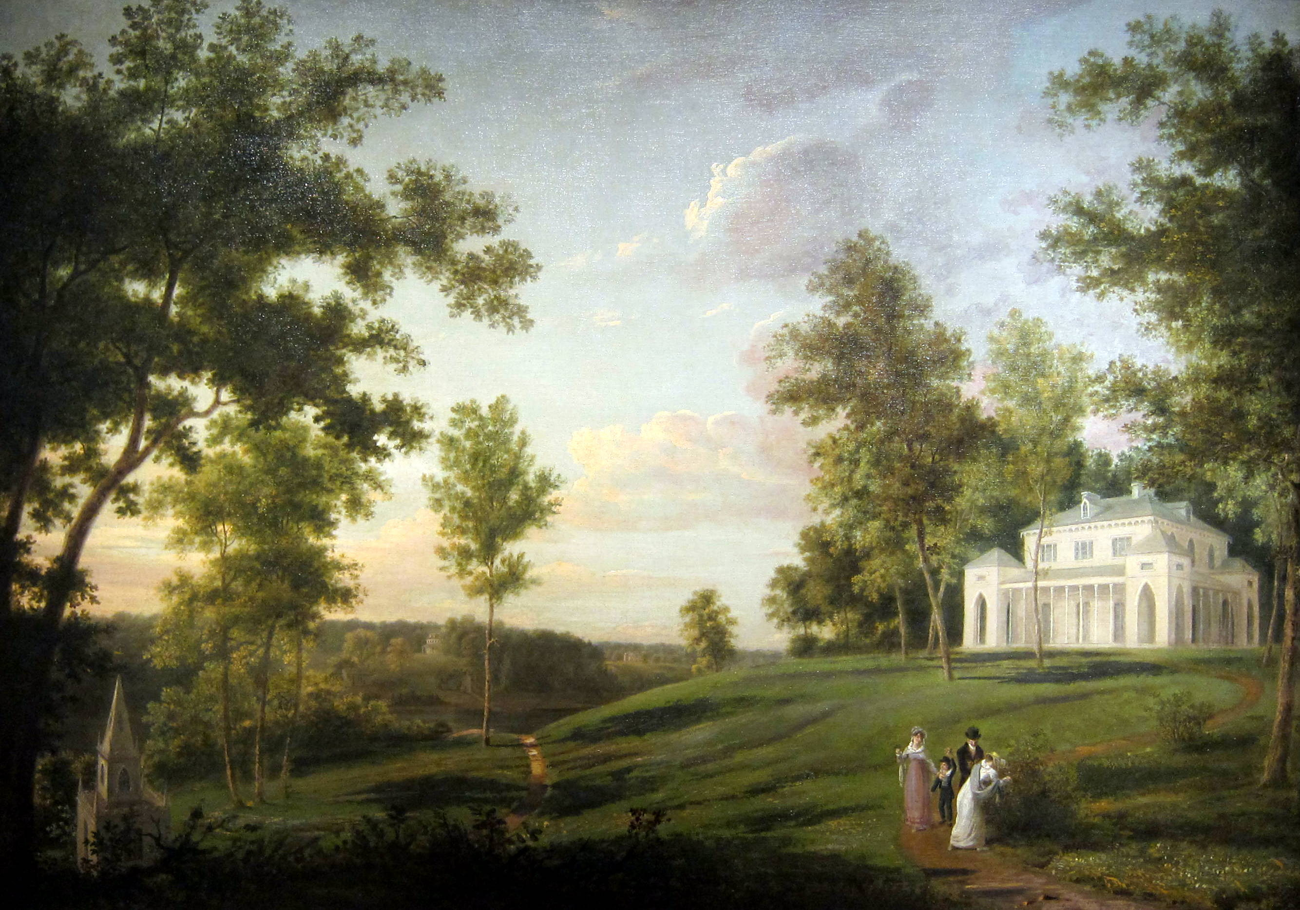 Southeast View of "Sedgeley Park", the Country Seat of James Cowles Fisher, Esq.